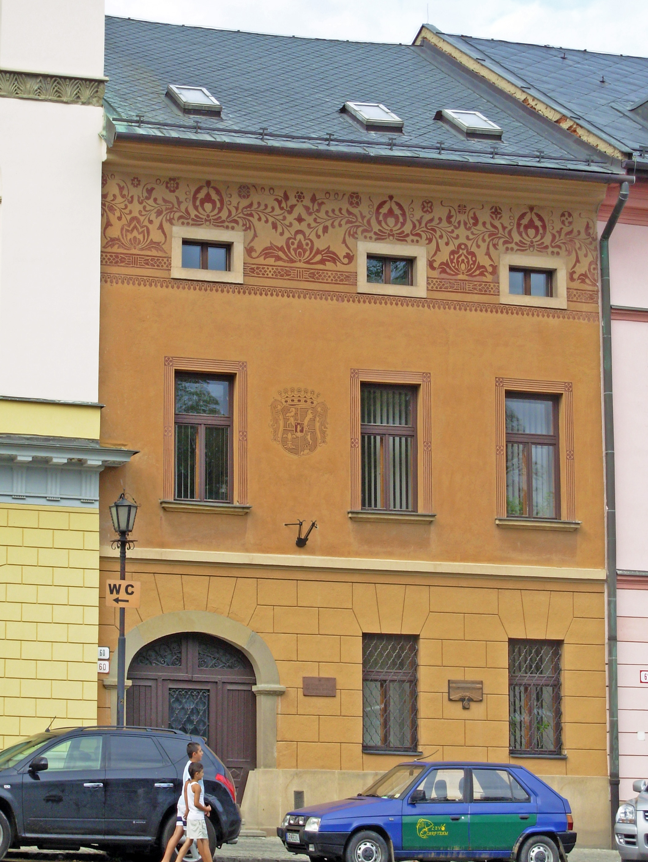 Minor County House in Levoča, Slovakia